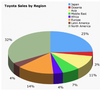 Graph of Toyota sales.